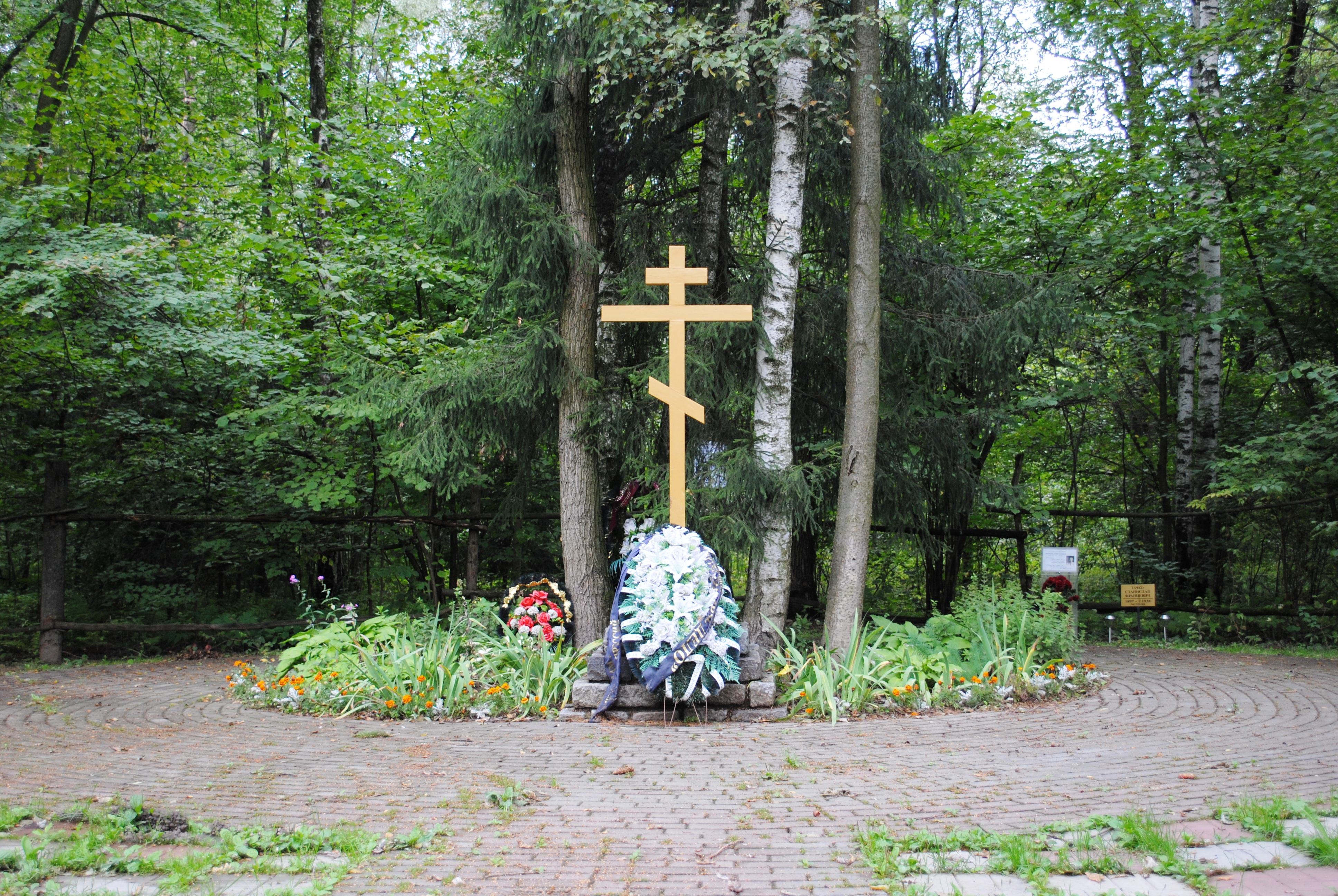 Poligon Kommunarka